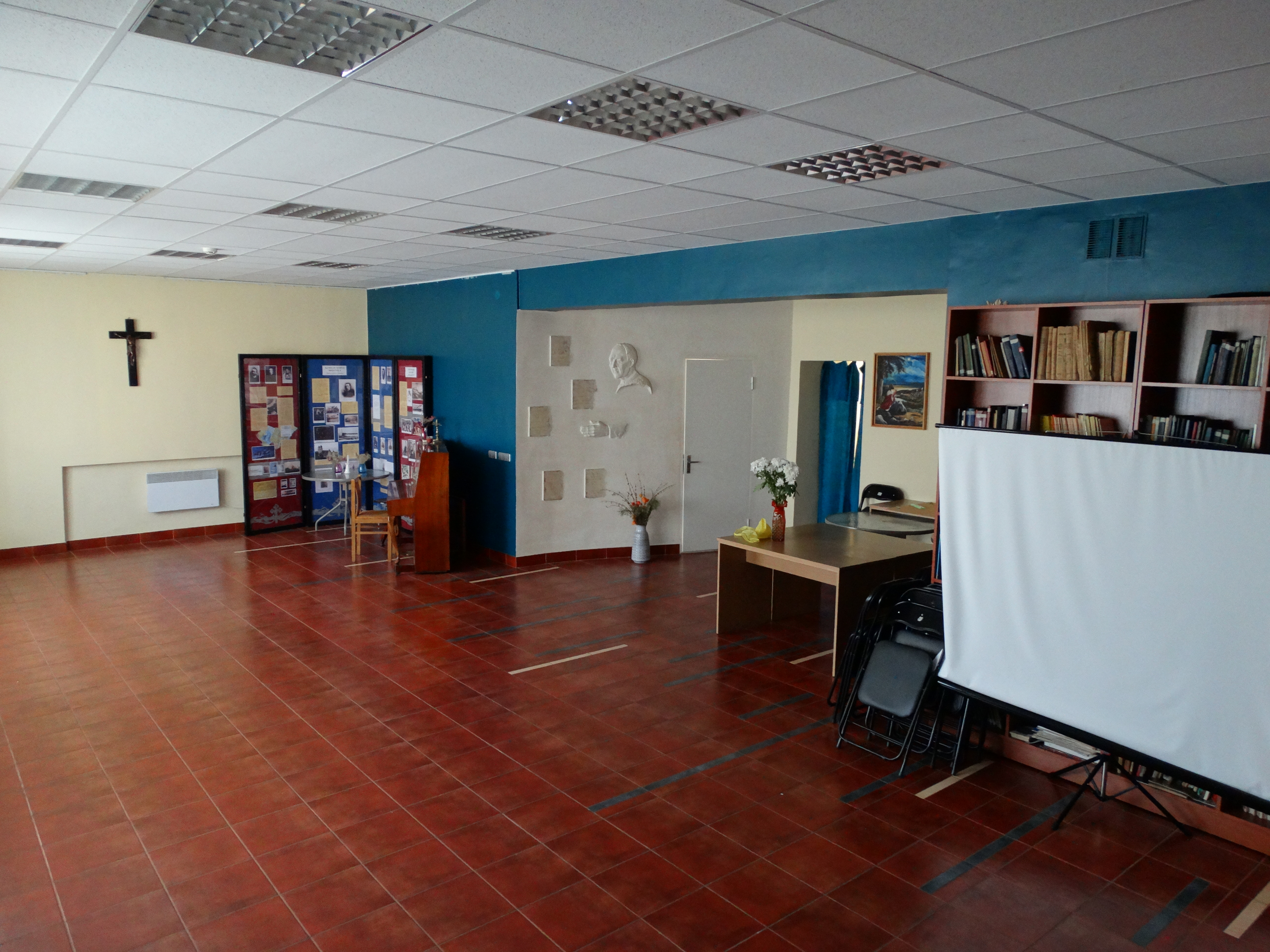 Aleksandras Stulginskis University Chapel, Akademija, Lithuania